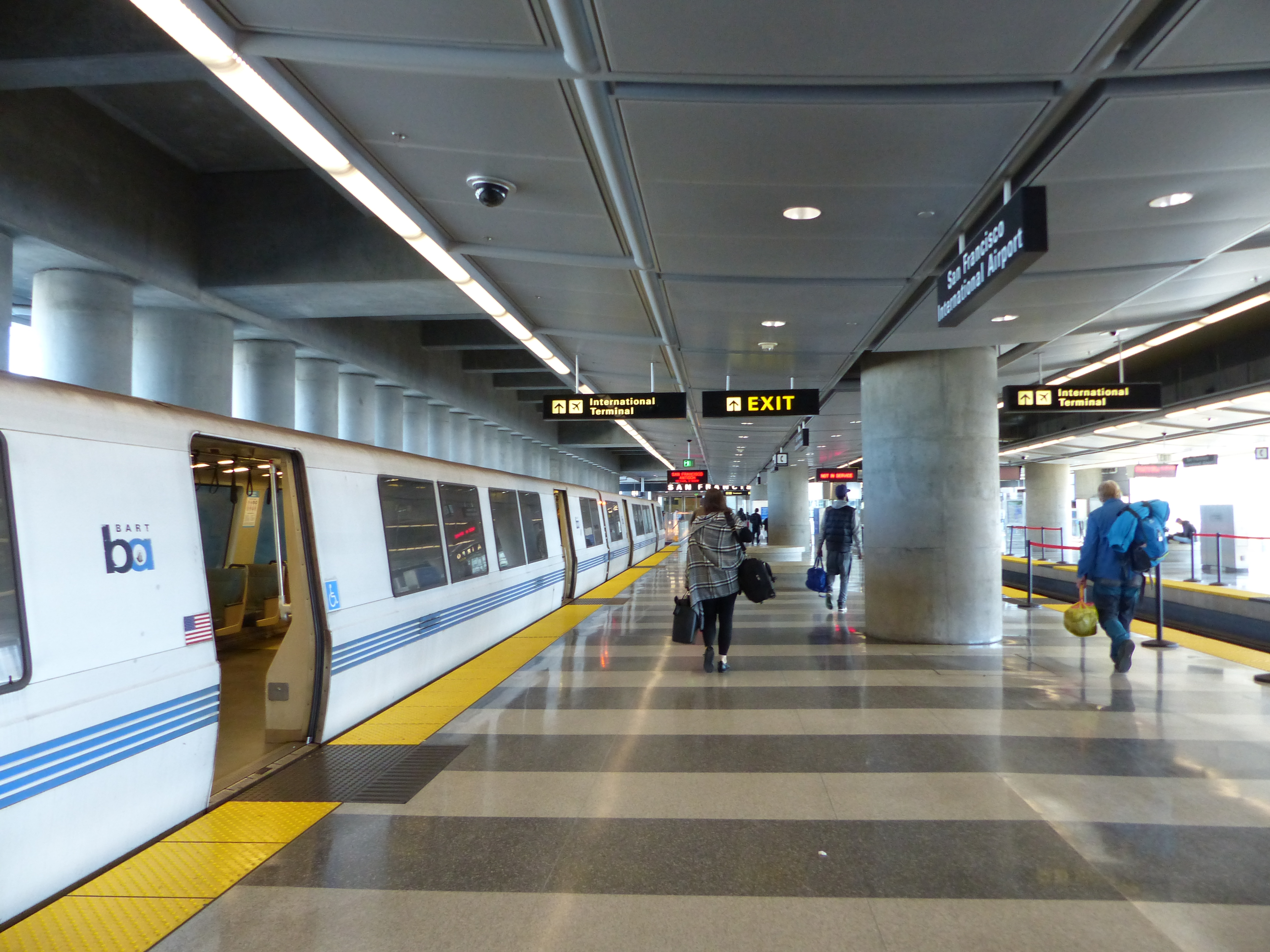 Antioch-SFO train at SFIA station in February 2020